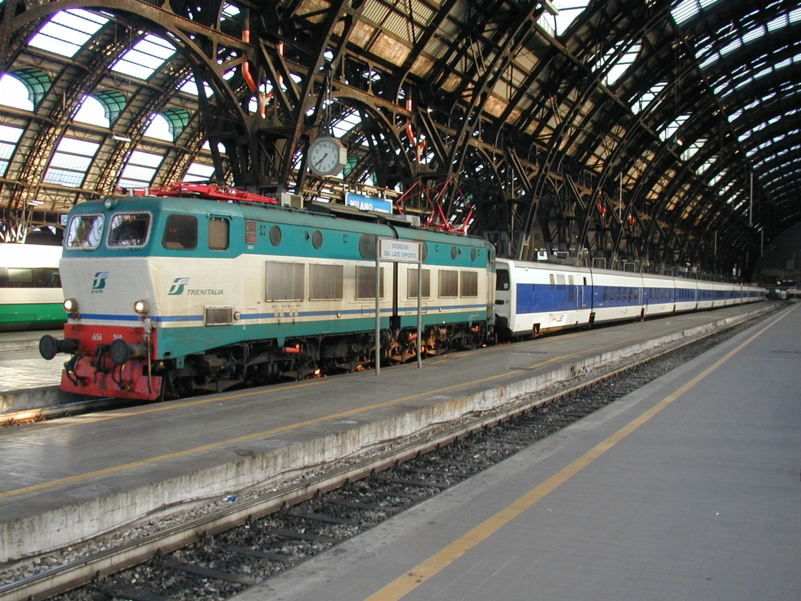 FS Class E.656 locomotive with EuroNight 11273 from Milano-Centrale to Barcelona-Sants.